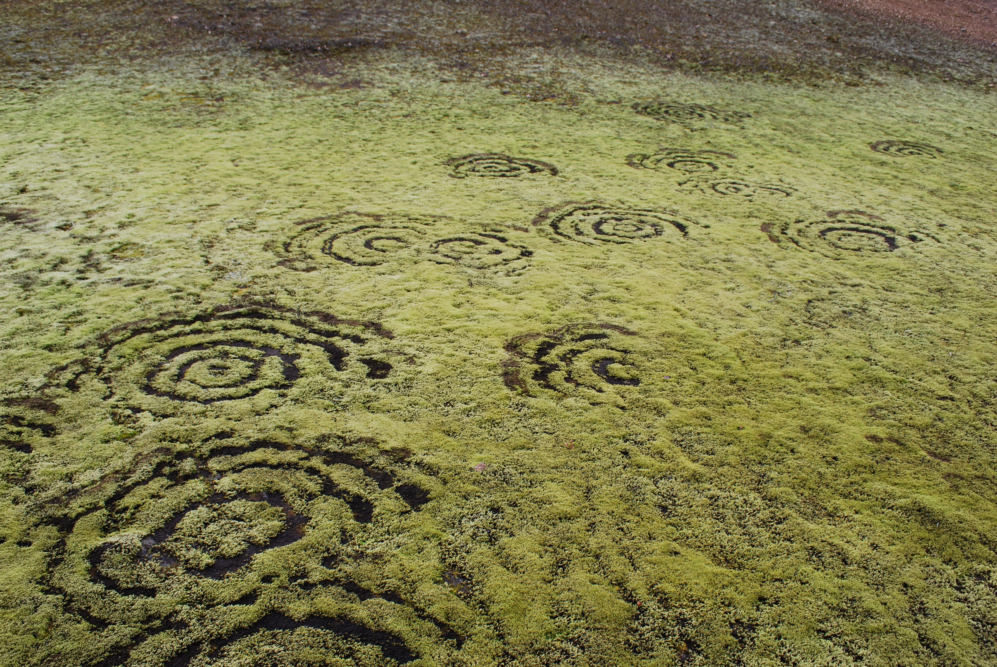 Fairy rings in Rainbow Mouintans region near the Laugavegur trekking route, Iceland.